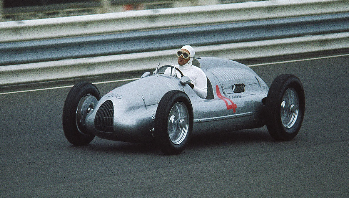 Auto Union Typ D on the finishing straight of the Nürburgring, driven by Colin Crabbe